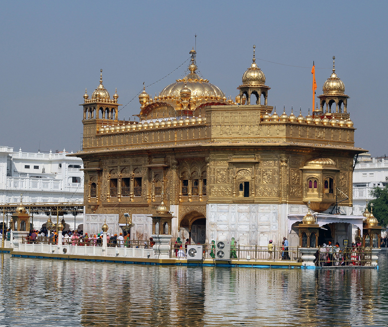 Sri Darbar Sahib from Outside